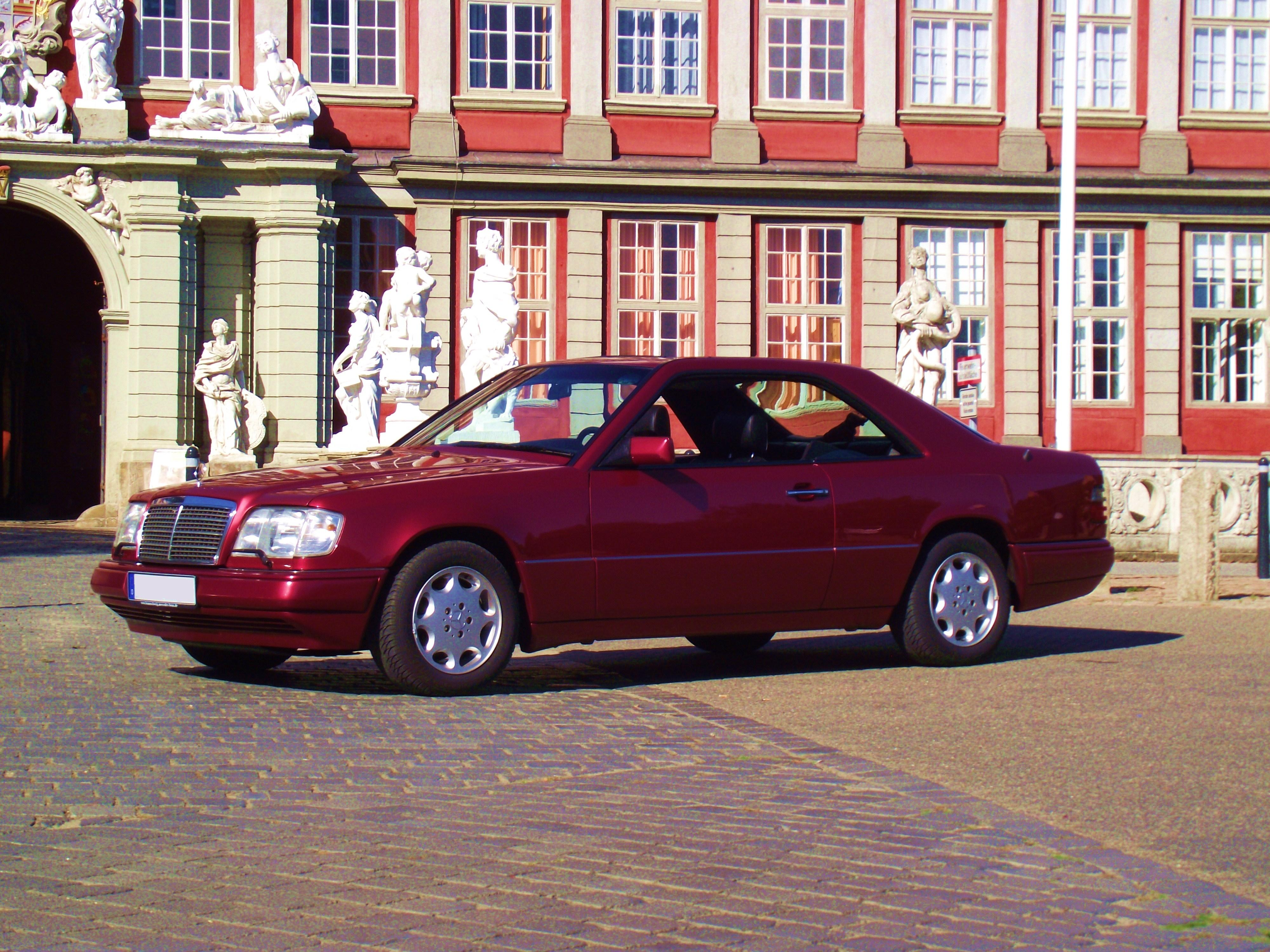 E 220, Baujahr 1994, MoPf 2